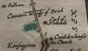 Holland House shown (oriented with west upwards) on John Ogilby's 1675 map of the route from London to Bristol, as "Earl of Hollands". Also visible are a bridge over Counter's Creek and St Mary Abbots church.